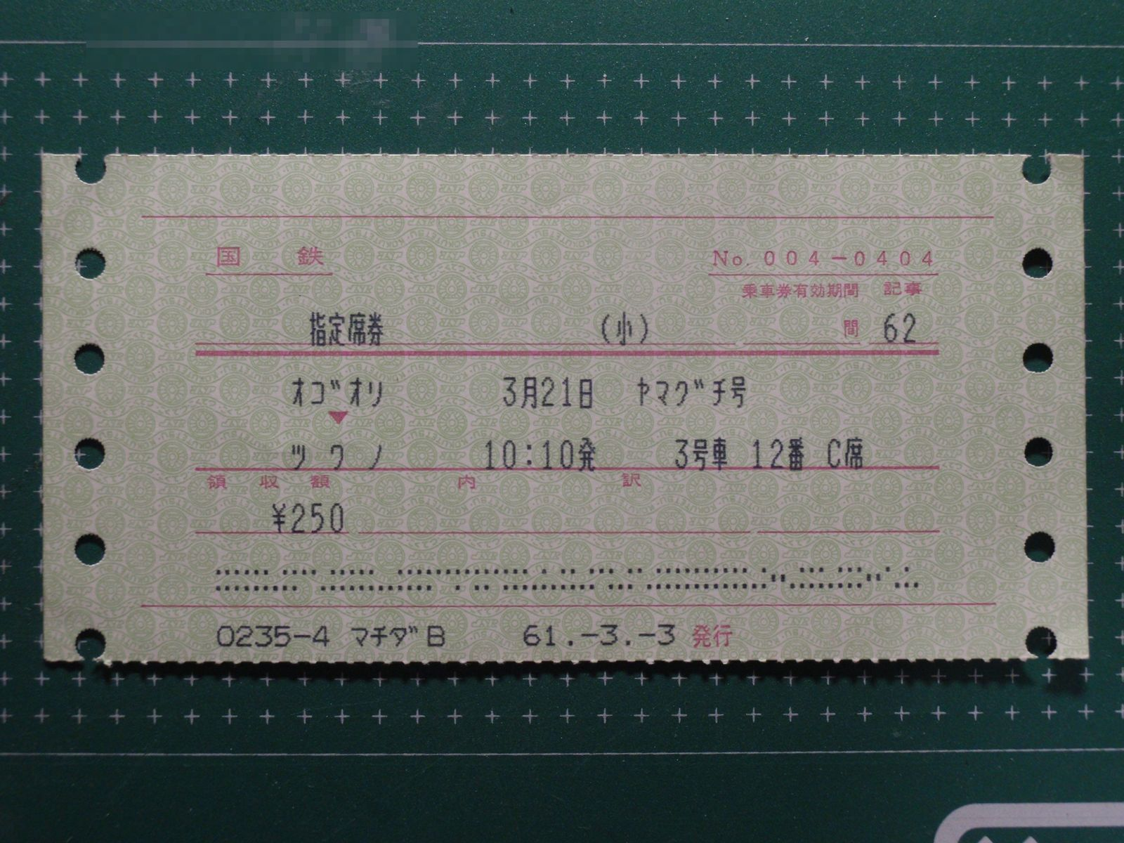 Japanese National Railways ticket for the SL Yamaguchi train issued through the MARS 105 system